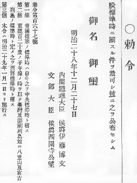 Imperial Ordinance 167 issued on December 27, Meiji 28 (1895)Originally on English Wikipedia, uploaded by TakuyaMurata.